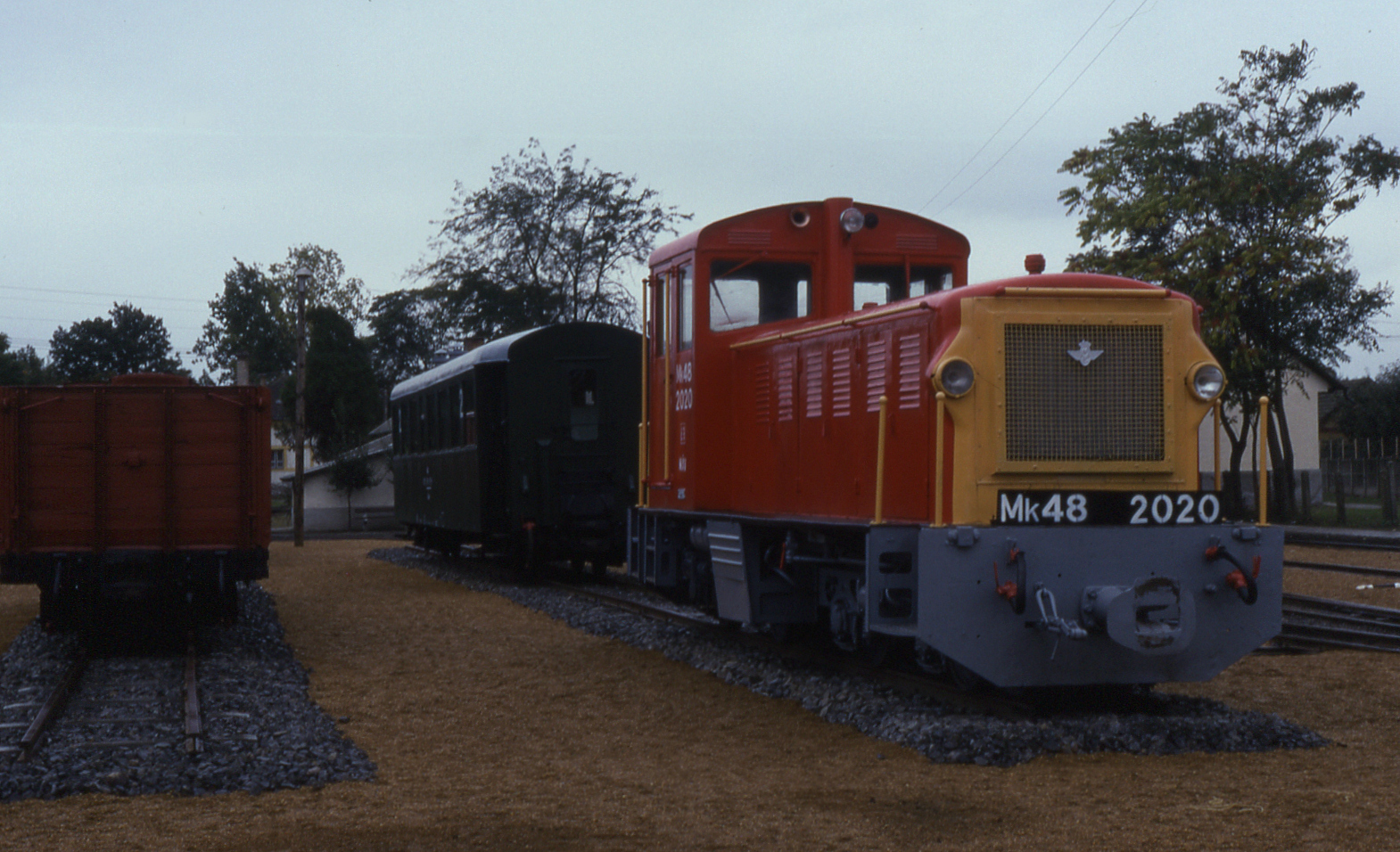 Plinthed loco Mk48 2020 at Dombrád, 17 September 1996.